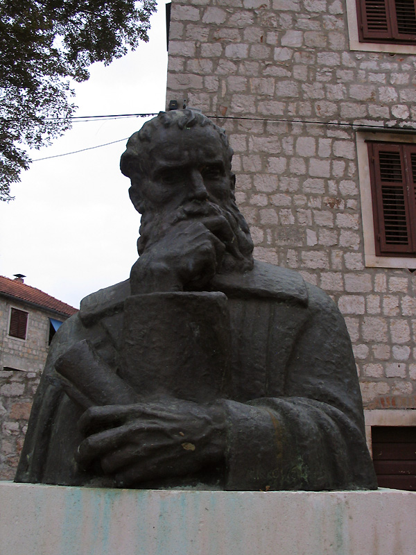 statue of poet Petar Hektorović in Stari Grad on island Hvar